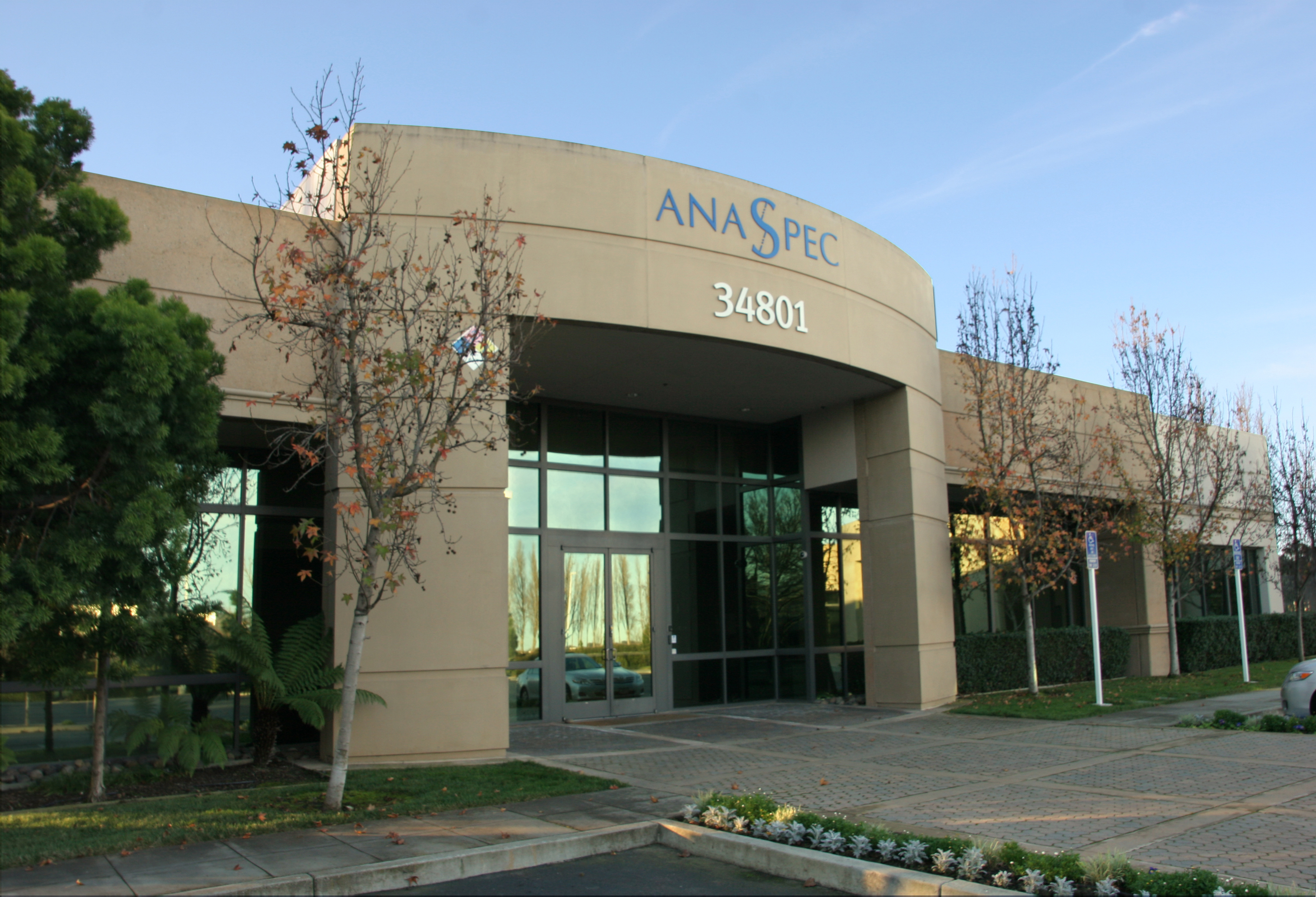 AnaSpec's facility in Fremont